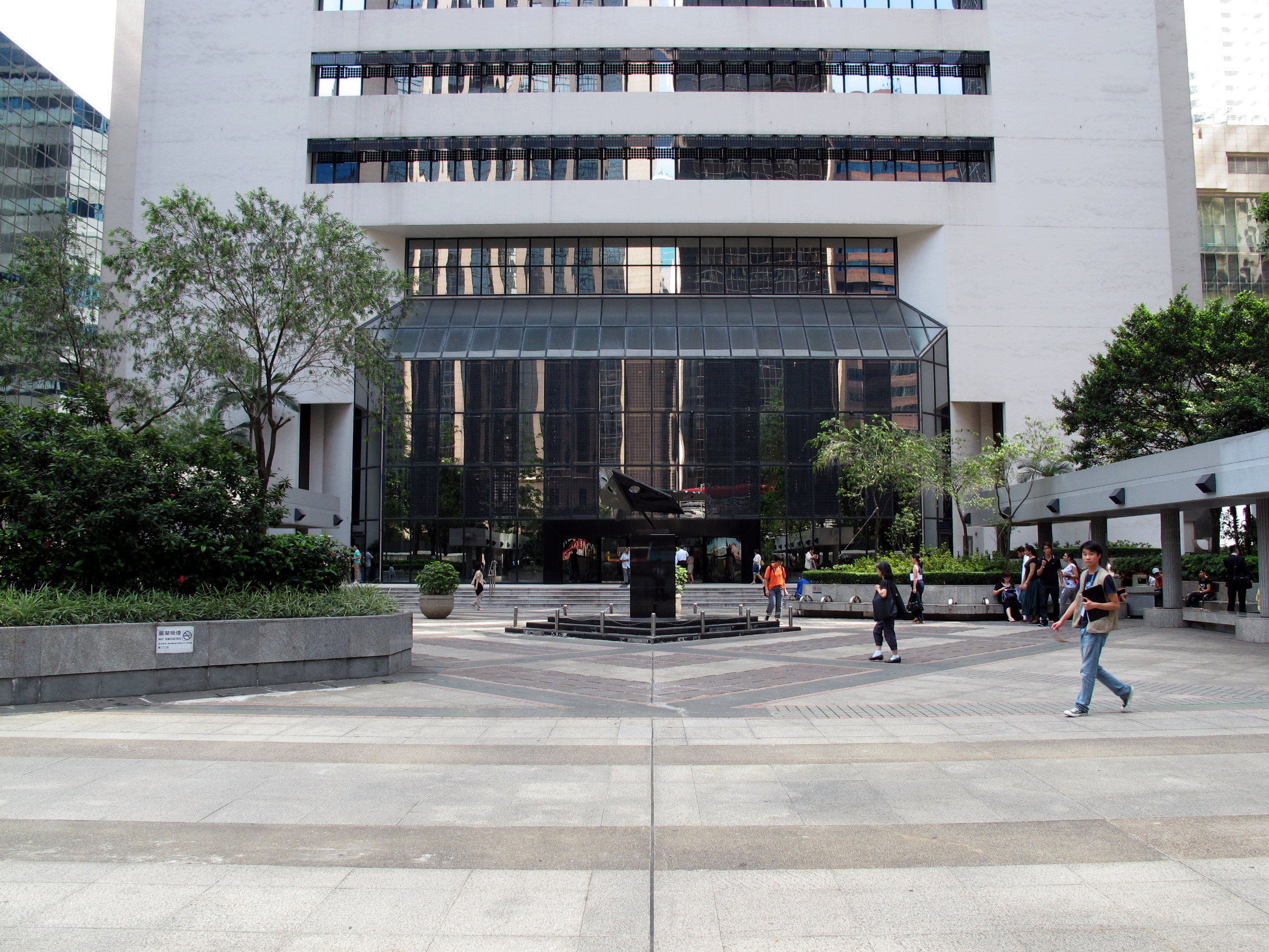 Wanchai Tower Outside Plaza